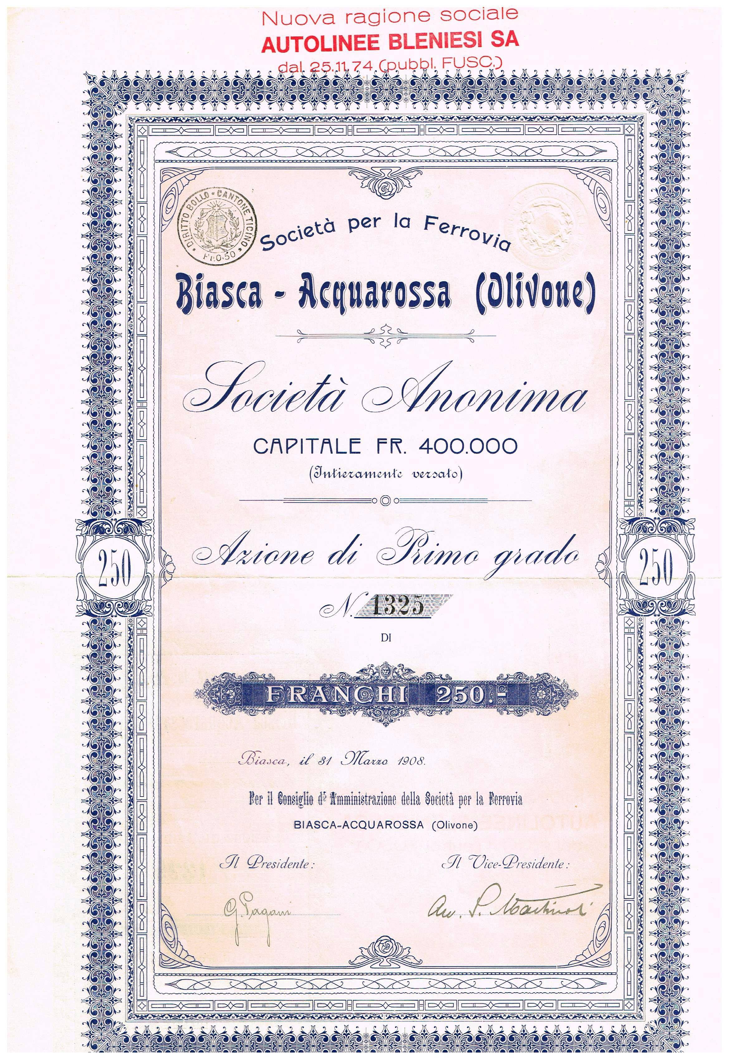 Share of the Società per la Ferrovia Biasca-Acquarossa (Olivone), issued 31. March 1908